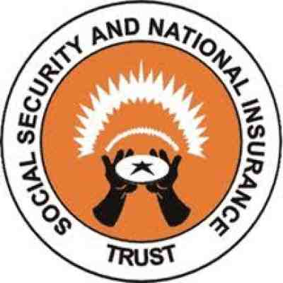 SSNIT (social security and national insurance trust) logo.